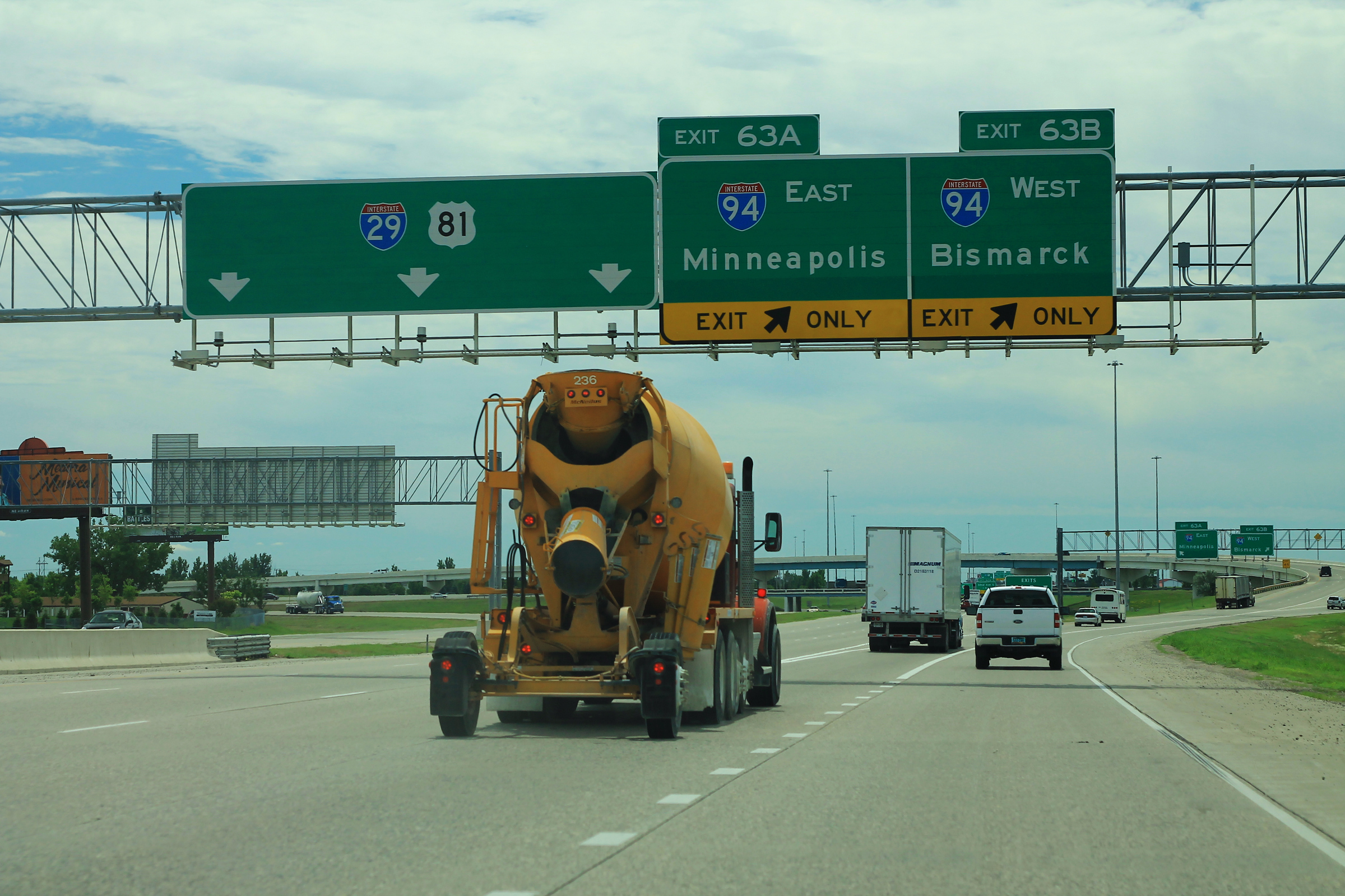 US81 I-29 South - Exit 63AB - I-94